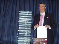 U.S. Rep. John Linder with the 2007 Tax code and complete set of Title 26 of the US Code of Federal Regulations